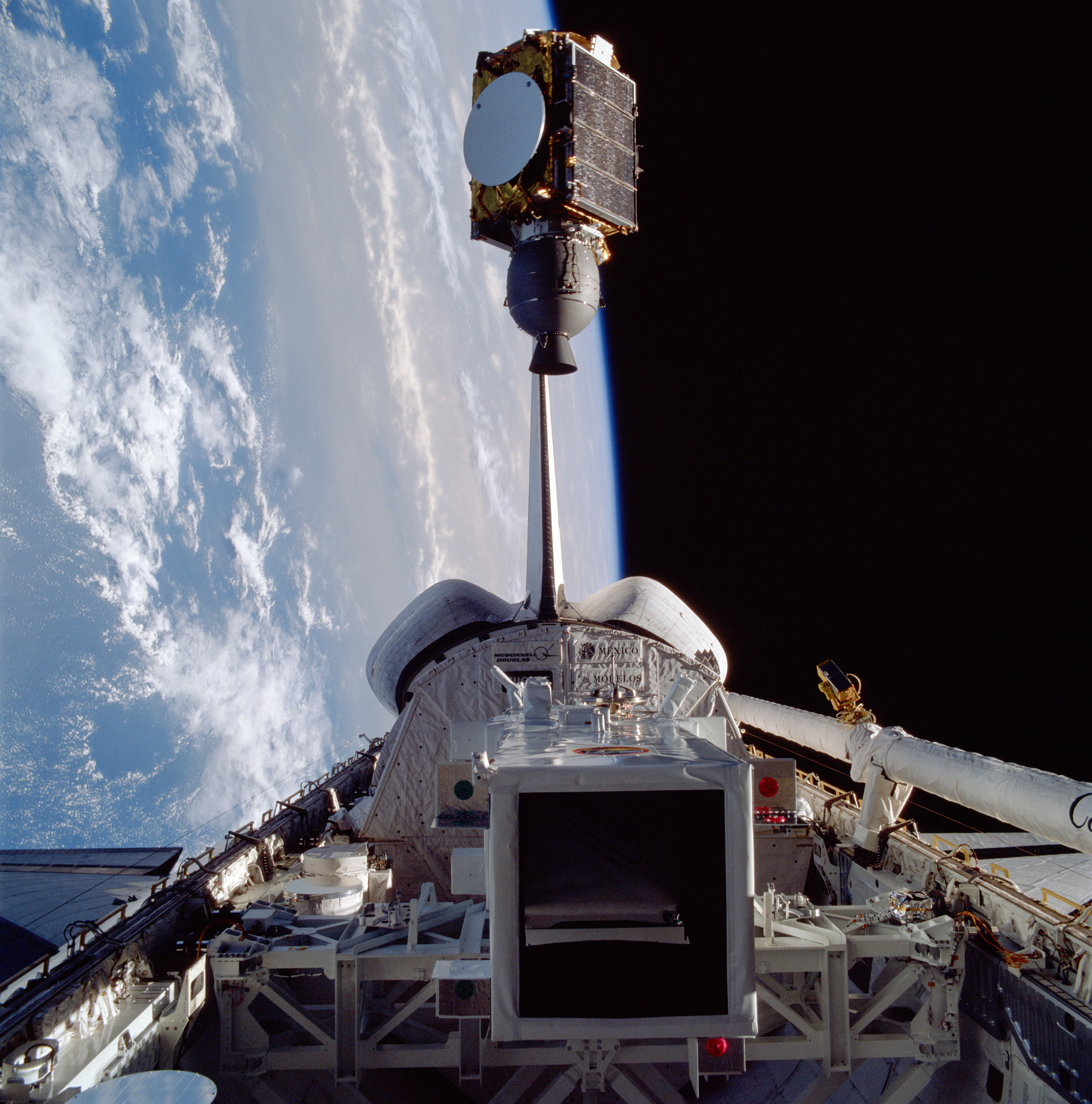 Arabsat communications satellite deploying from Discovery's payload bay. Cloudy Earth's surface can be seen to the left of the frame.